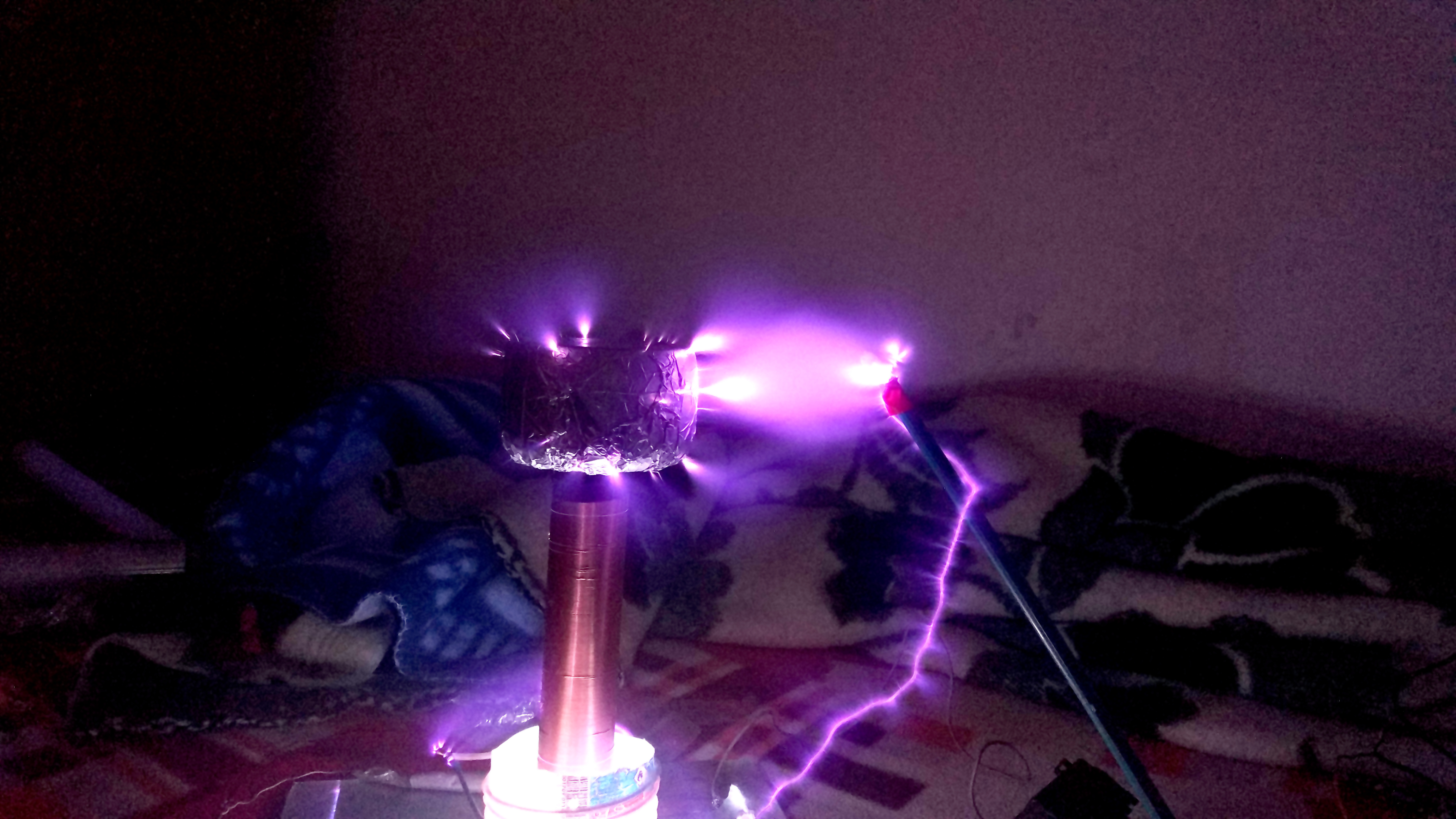 Kjo eshte nje shkarkese elektrike e krijuar nga nje bobine e teslas